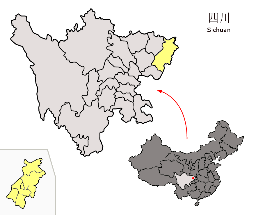 Location of Dazhou Prefecture (yellow) within Sichuan province of China Map drawn in october 2007 using various sources, mainly : Sichuan province administrative regions GIS data: 1:1M, County level, 1990 Sichuan Counties map from